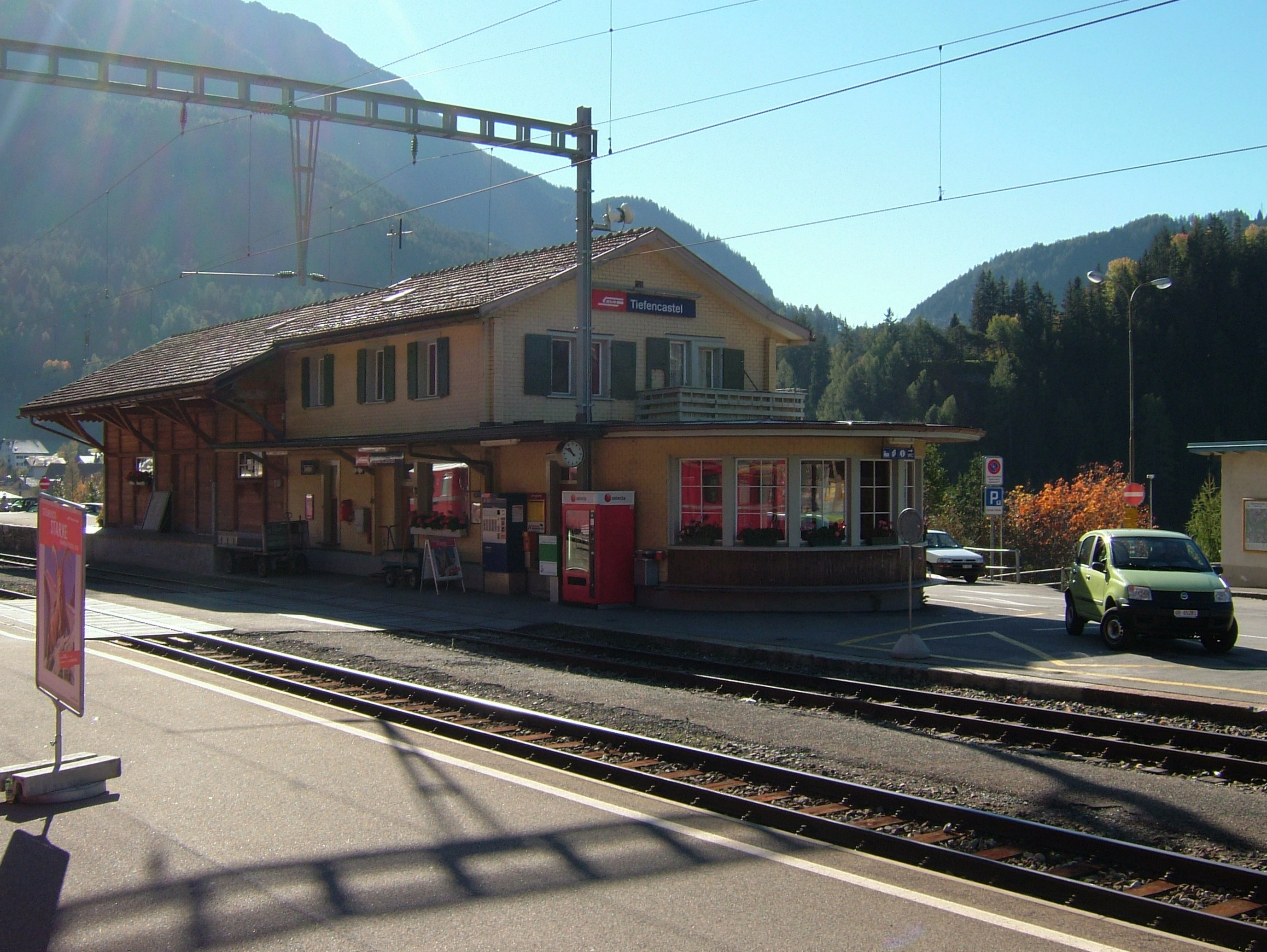 Albula RailwayTiefencastel train station